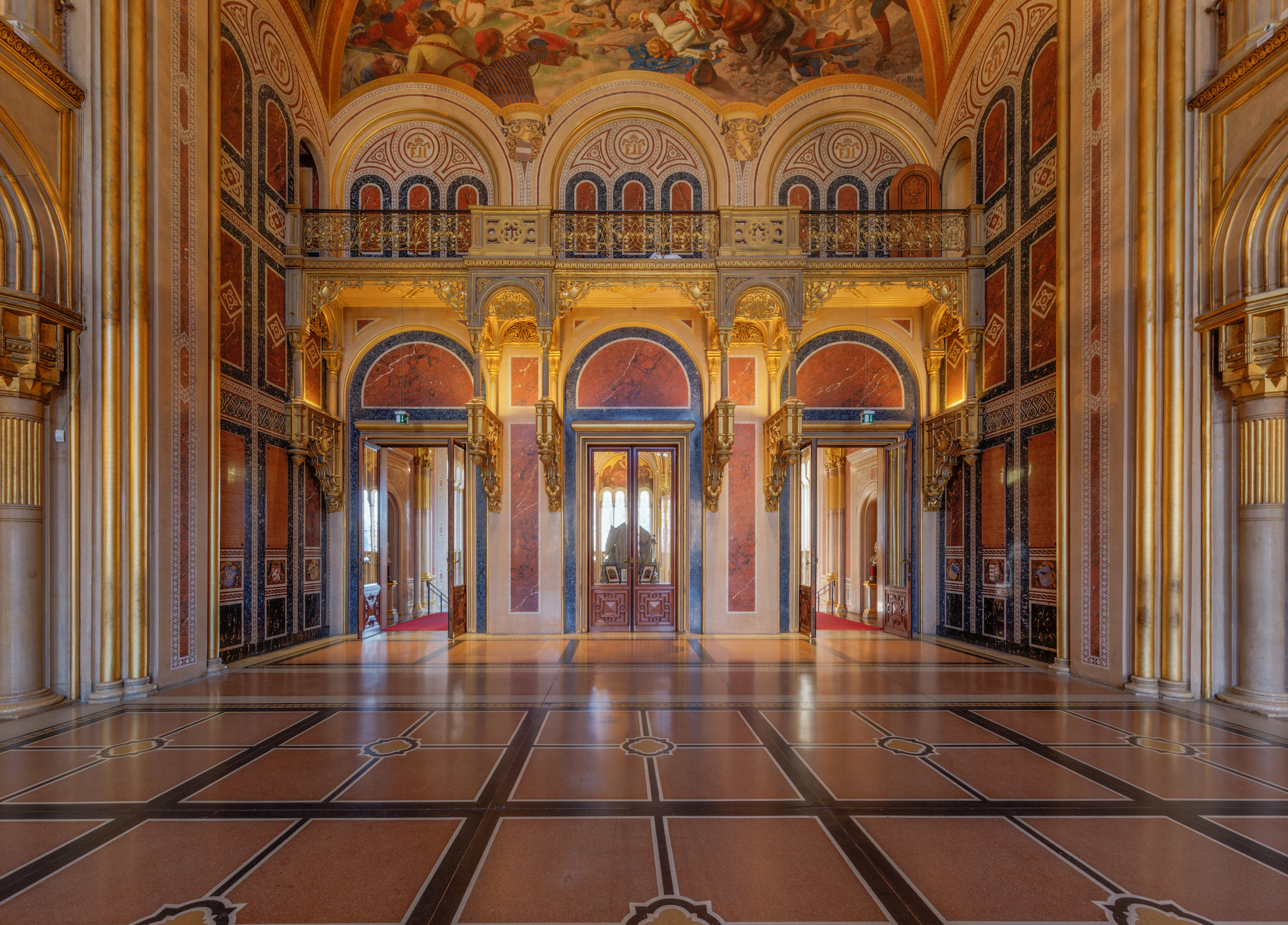 Ruhmeshalle, Heeresgeschichtliches Museum), Wien, This image was uploaded as part of European Science Photo Competition 2015.